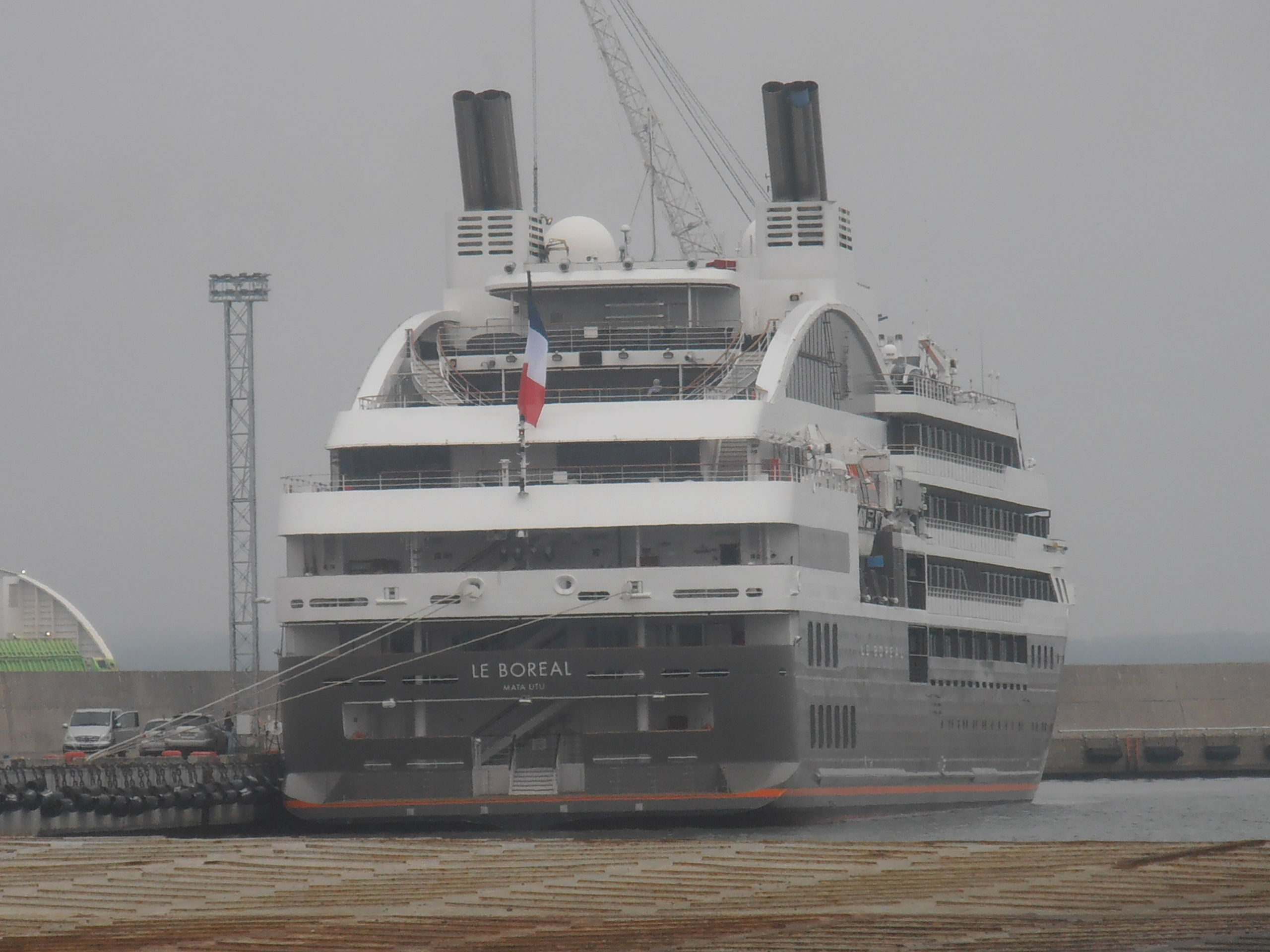 Cruise ship Le Boreal at Quay 15 in Tallinn 24 May 2013